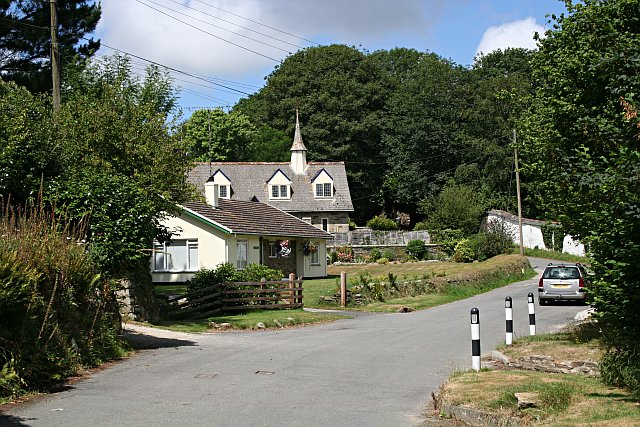 Idless. Idless is a hamlet in the River Allen valley north of Truro. It gives its name to the large area of woodland nearby.